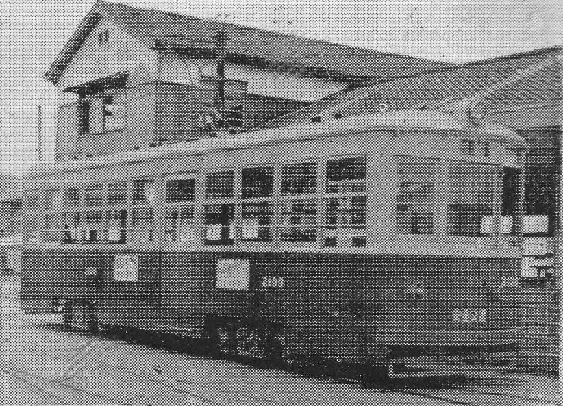 Osaka City Tram #2109